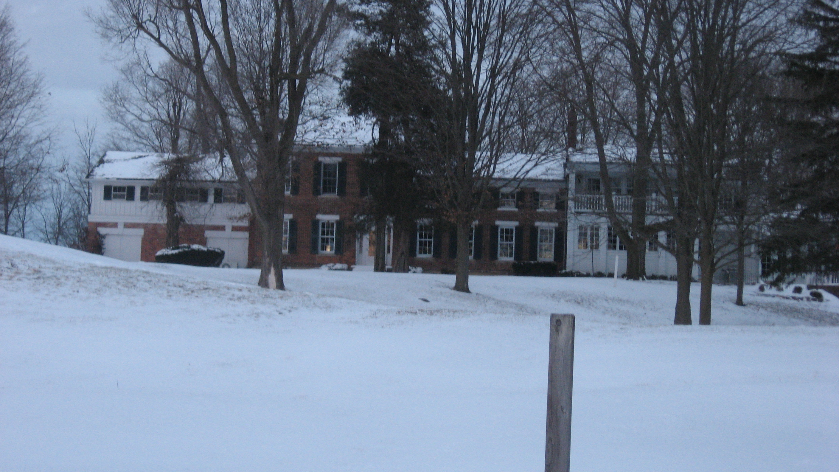 Front of the Vermilyea Inn (now a house), located at 13501 Redding Drive southwest of Fort Wayne in Aboite Township, Allen County, Indiana, United States. Built in 1839, the inn and surrounding buildings are listed on the National Register of Historic Places as a historic district.